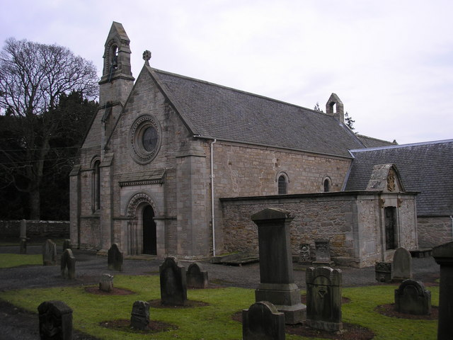 Abercorn Church, Abercorn.